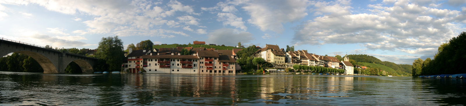 Vue panoramique d'Eglisau